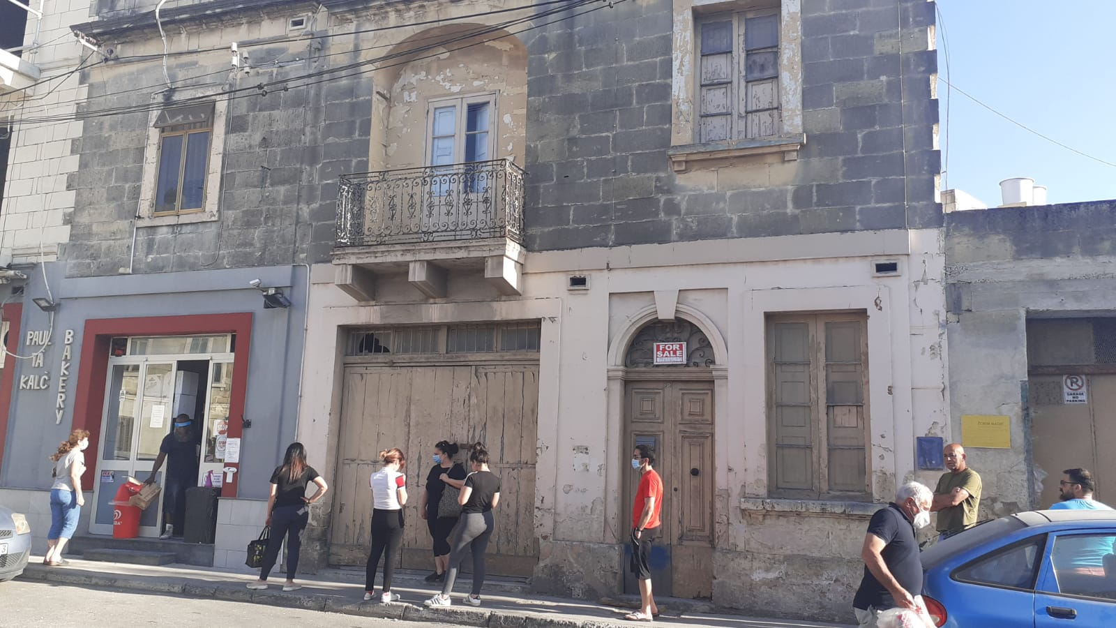 Qormi walk